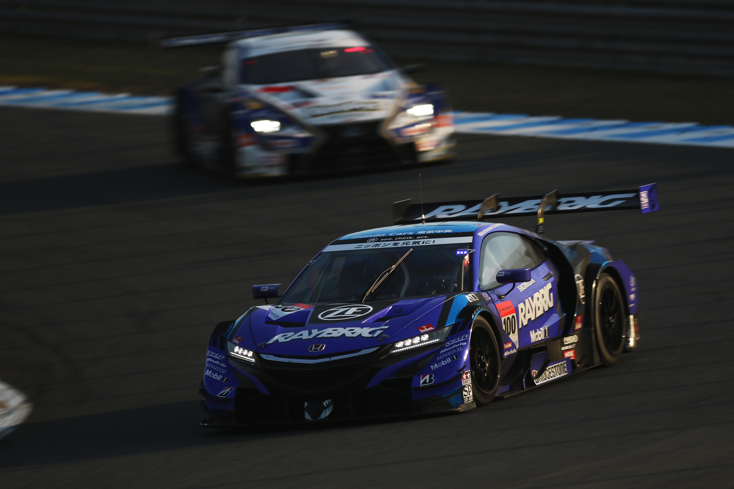 SUPER GT Rd.8 (Final) - Twin Ring Motegi